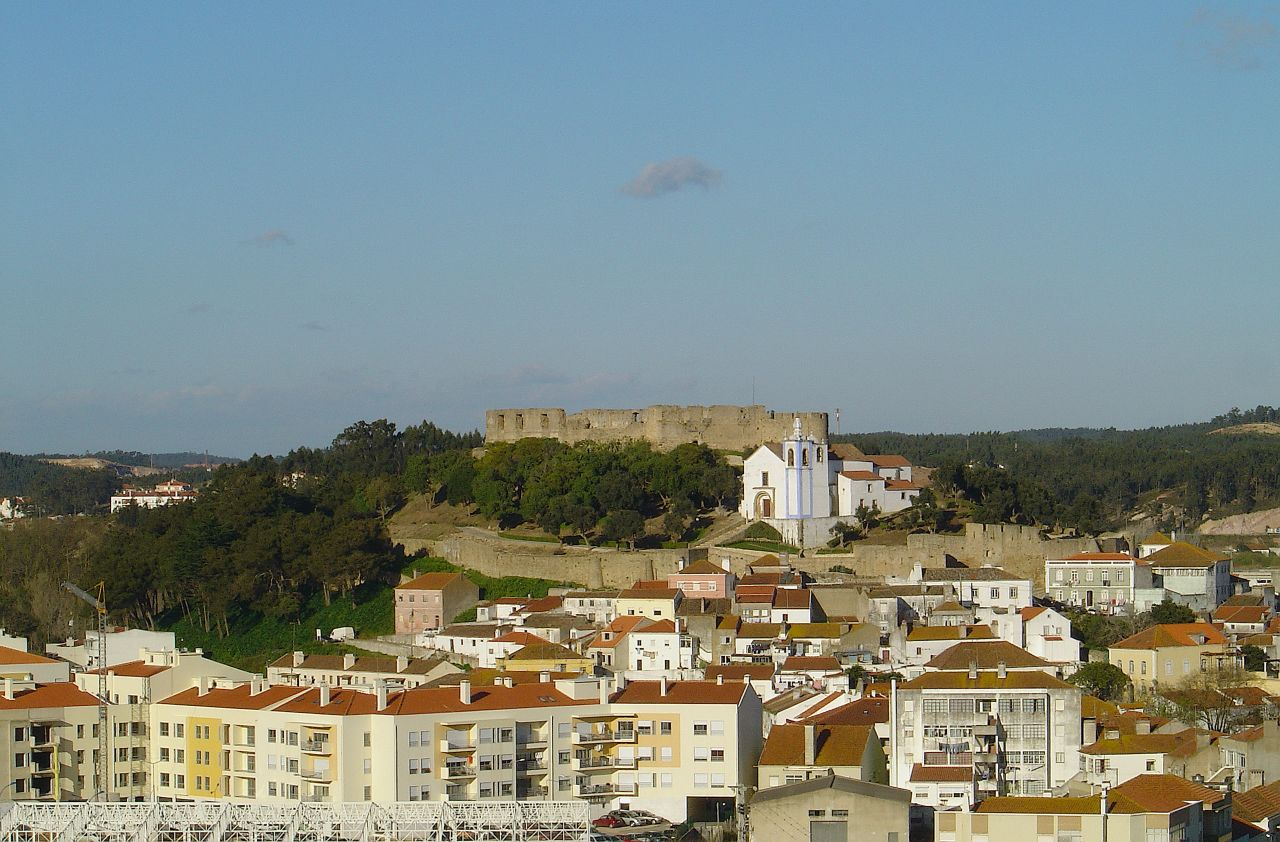 View of Torres Vedras and its castle, Portugal